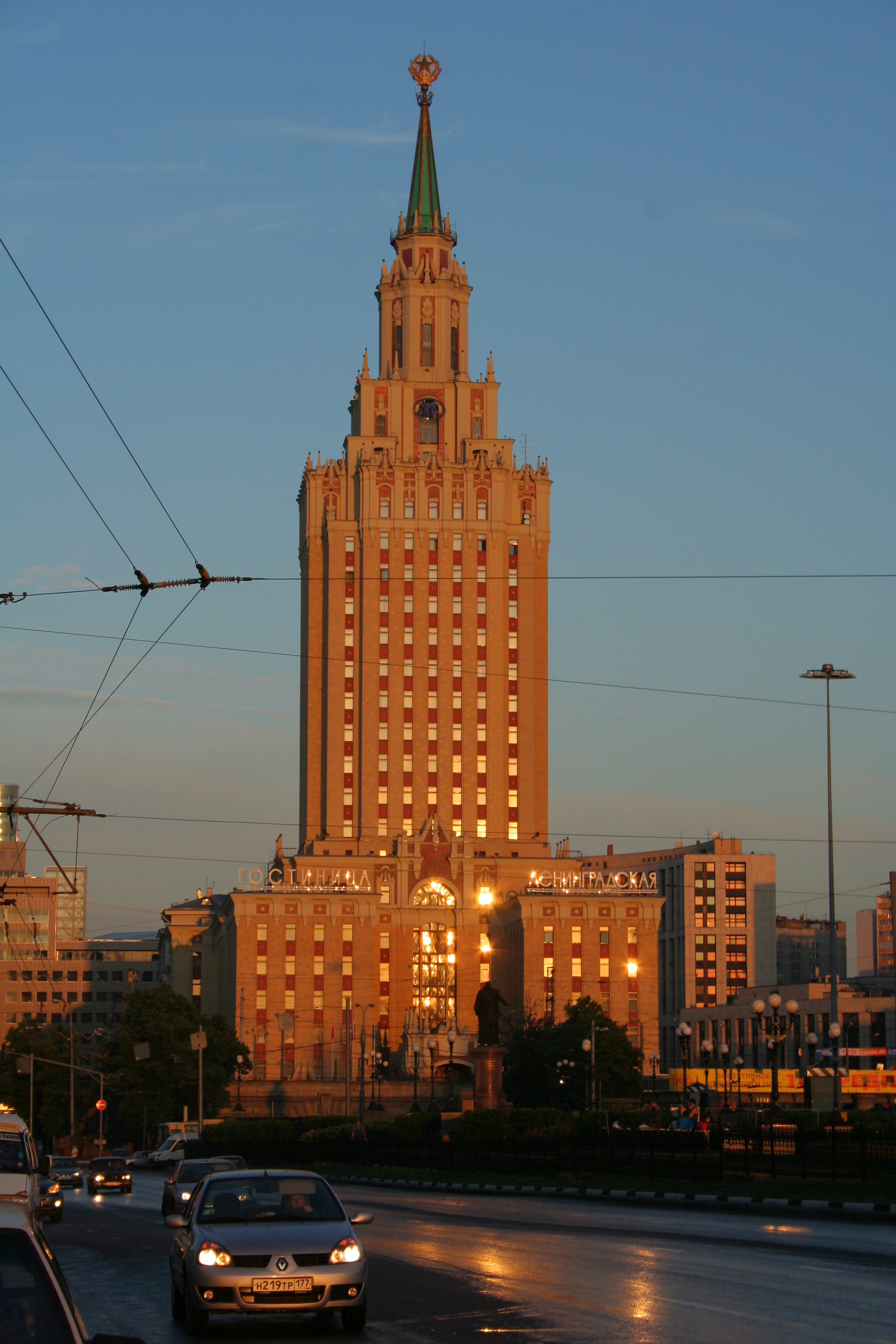 The Hotel Leningradskaya in Moscow. View after its renewal as of 2010.